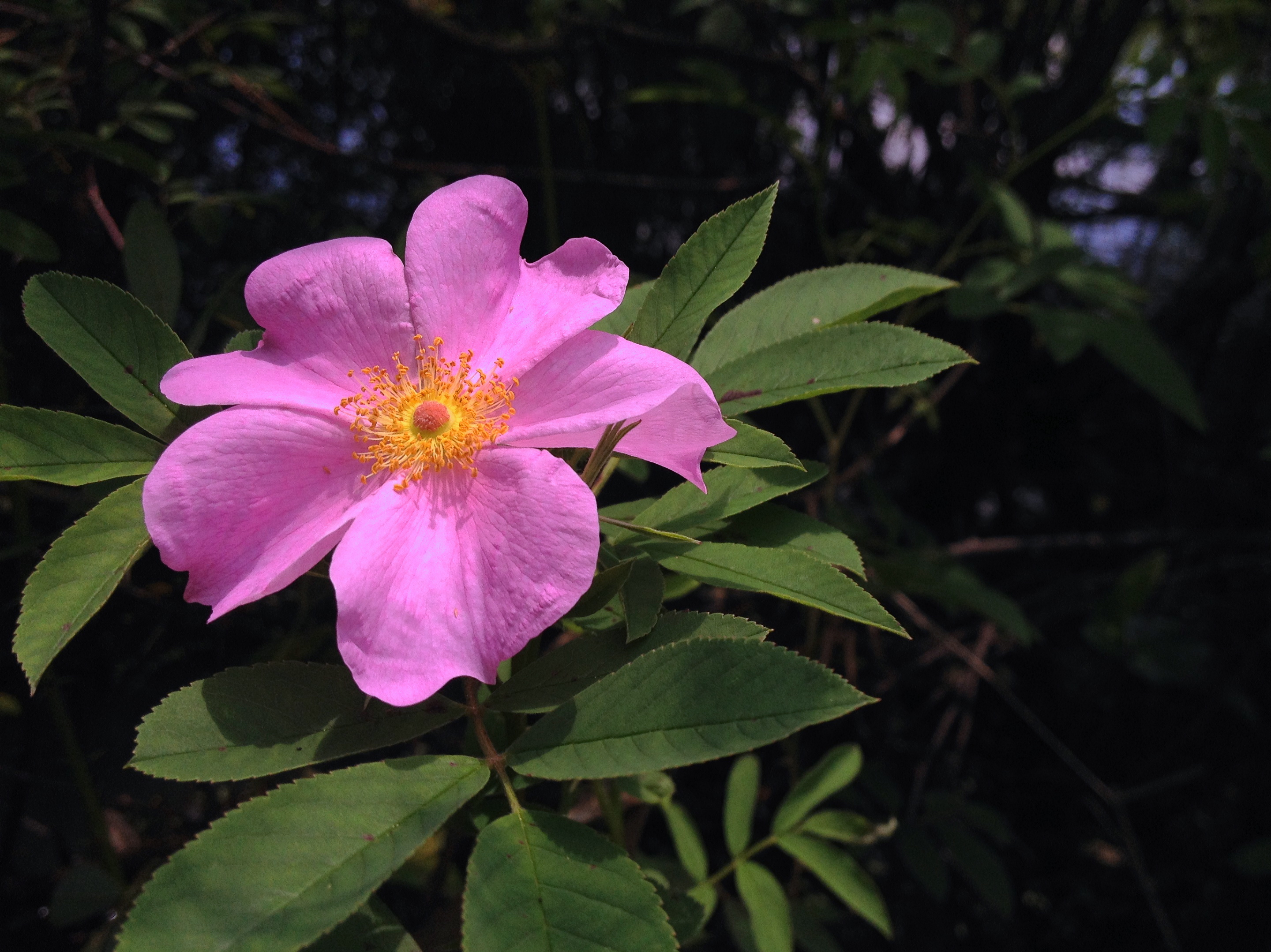 Rosa palustris (swamp rose), Huntley Meadows Park, Alexandria, Virginia